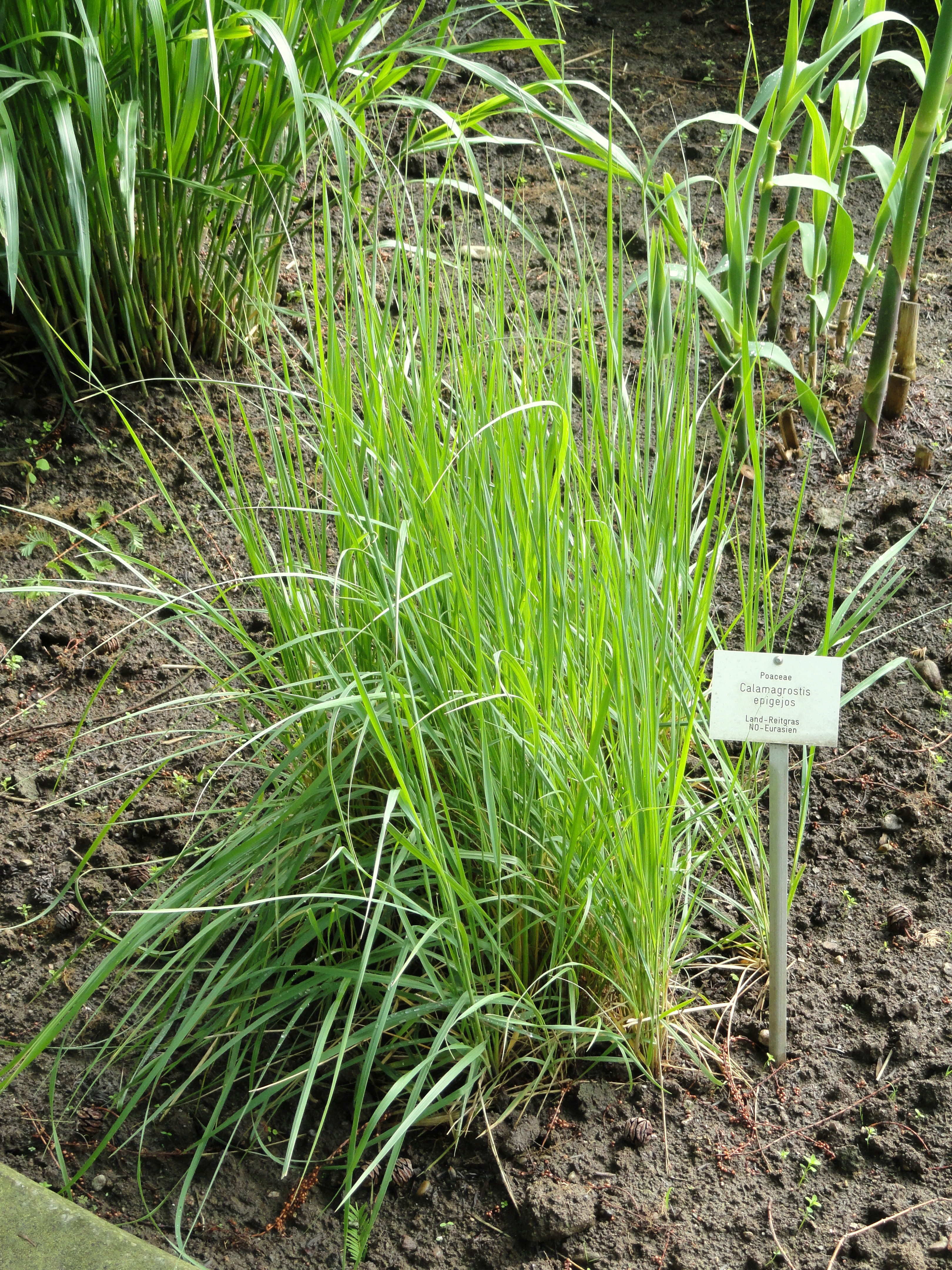 Calamagrostis epigejos specimen in the Botanischer Garten Freiburg, Freiburg im Breisgau, Baden-Württemberg, Germany.